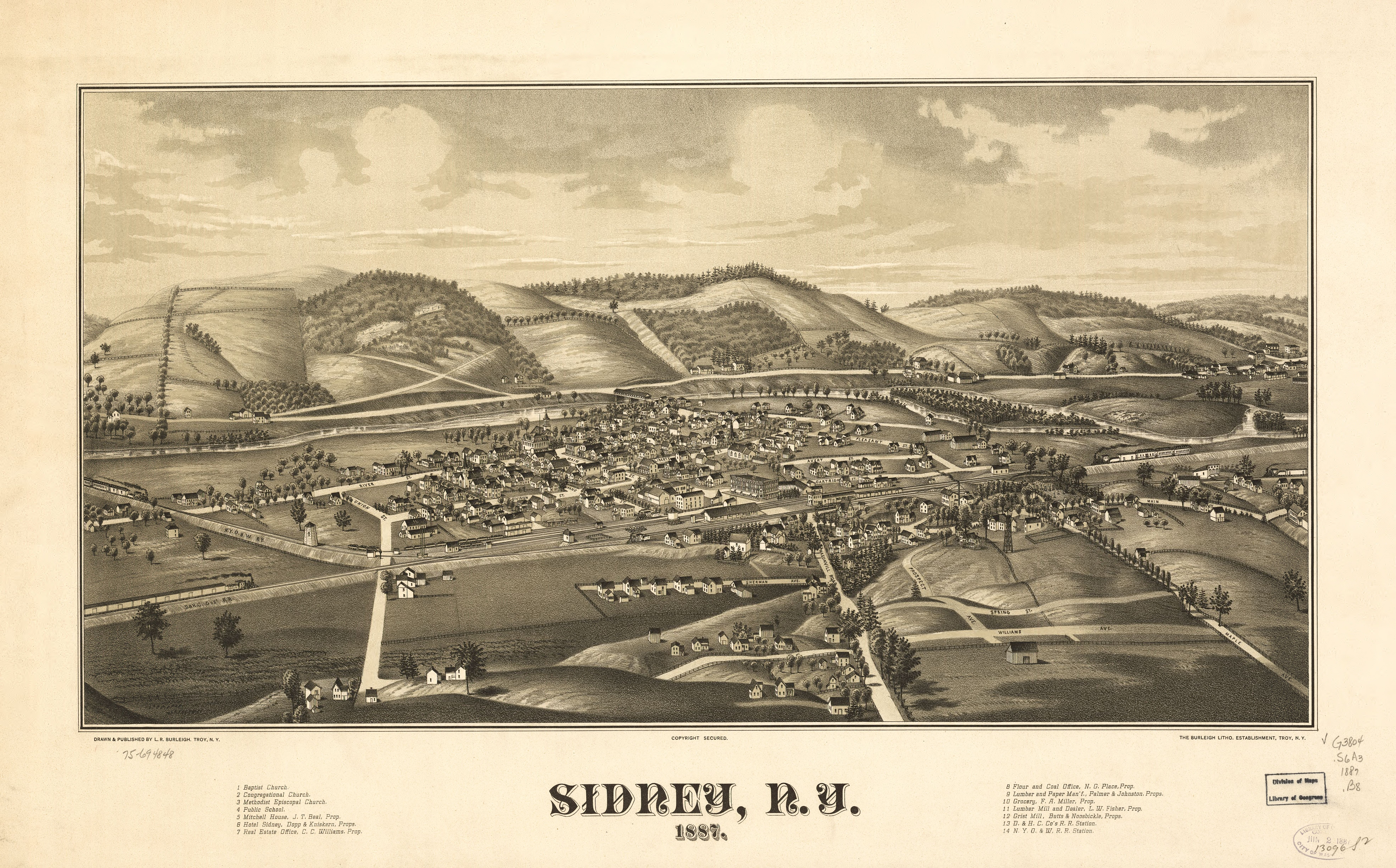 Perspective map not drawn to scale. Bird's-eye-view. LC Panoramic maps (2nd ed.), 634 Available also through the Library of Congress Web site as a raster image. Indexed for points of interest. AACR2